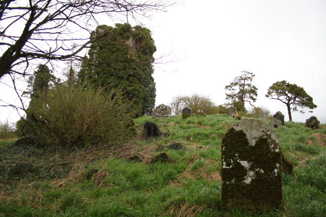 Ruined church and graveyard. Ruin of ancient church at Rathconrath.